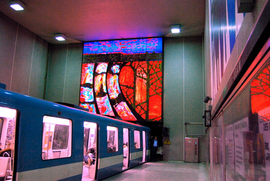 Berri-UQAM metro station in the Montreal metro.